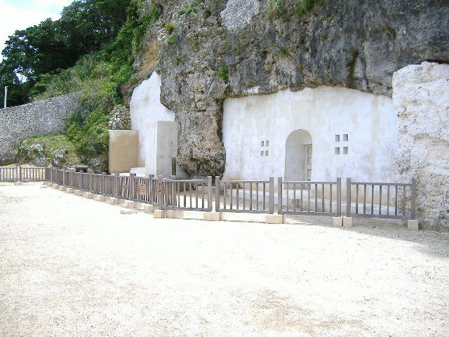 Urasoe Yodore(Royal mausoleum of the Ryukyu Kingdom)